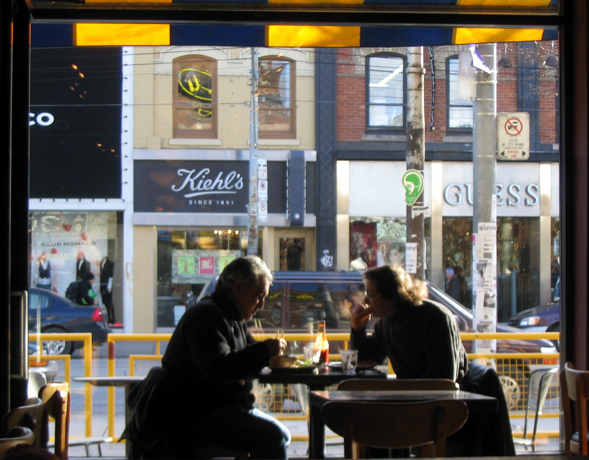 Friday lunch on Queen Street West, Toronto, Canada.